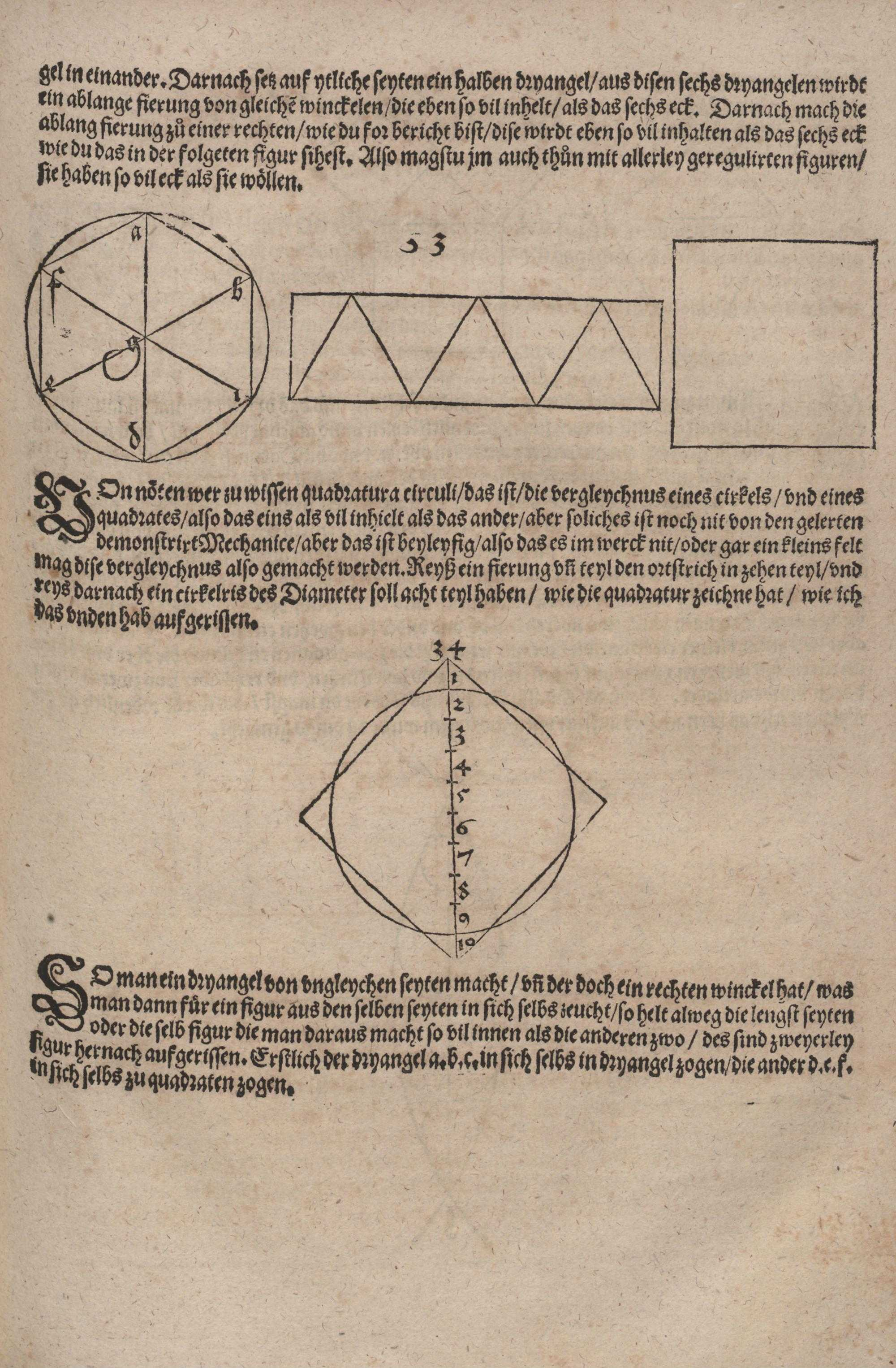 Squaring the circle (approximate construction) from "Underweysung der messung..."